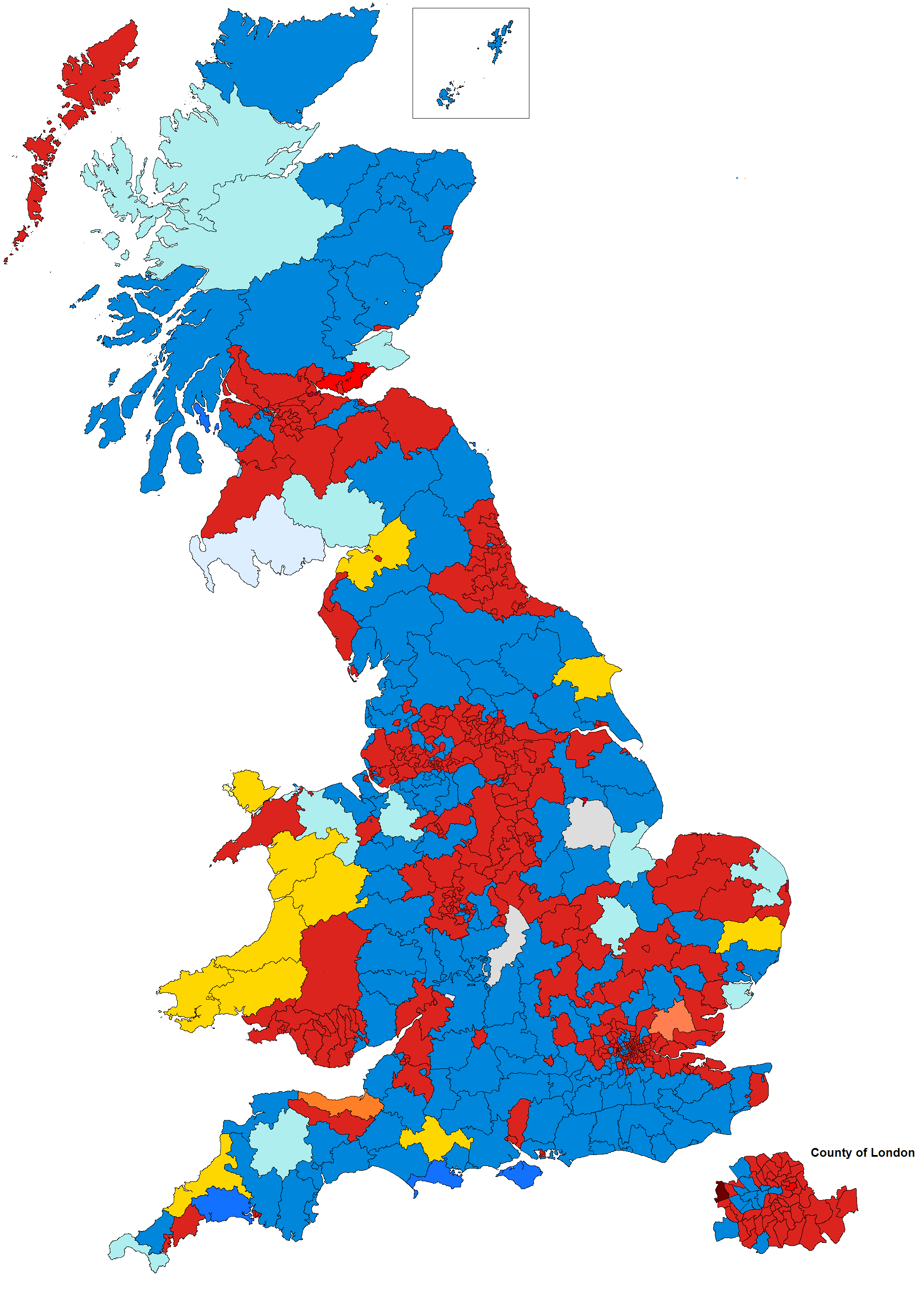 A map of the results of the United Kingdom general election, 1945, showing the results of every seat in England, Scotland and Wales.